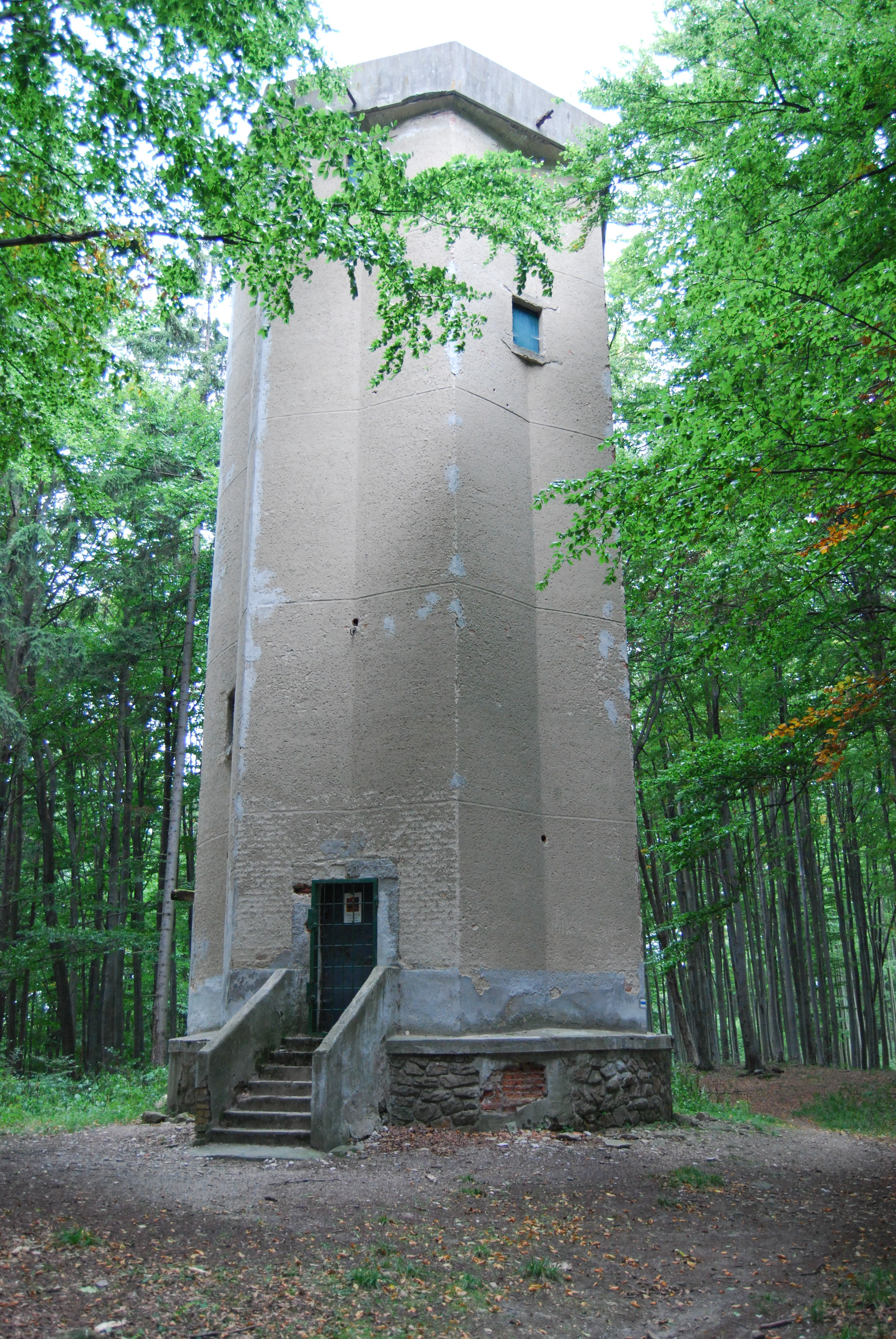 Watchtower in nature reservation Velký a Malý Kamýk near Albrechtice nad Vltavou village in Pisek District, Czech Republic.